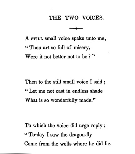 First three stanzas of the poem "The Two Voices" by Alfred, Lord Tennyson, as they appeared in an American edition of his collection Poems, volume II. Boston: William D. Ticknor, 1842: p. 116.